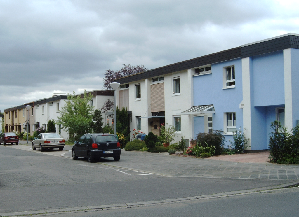 Houses in Mannheim-Vogelstang